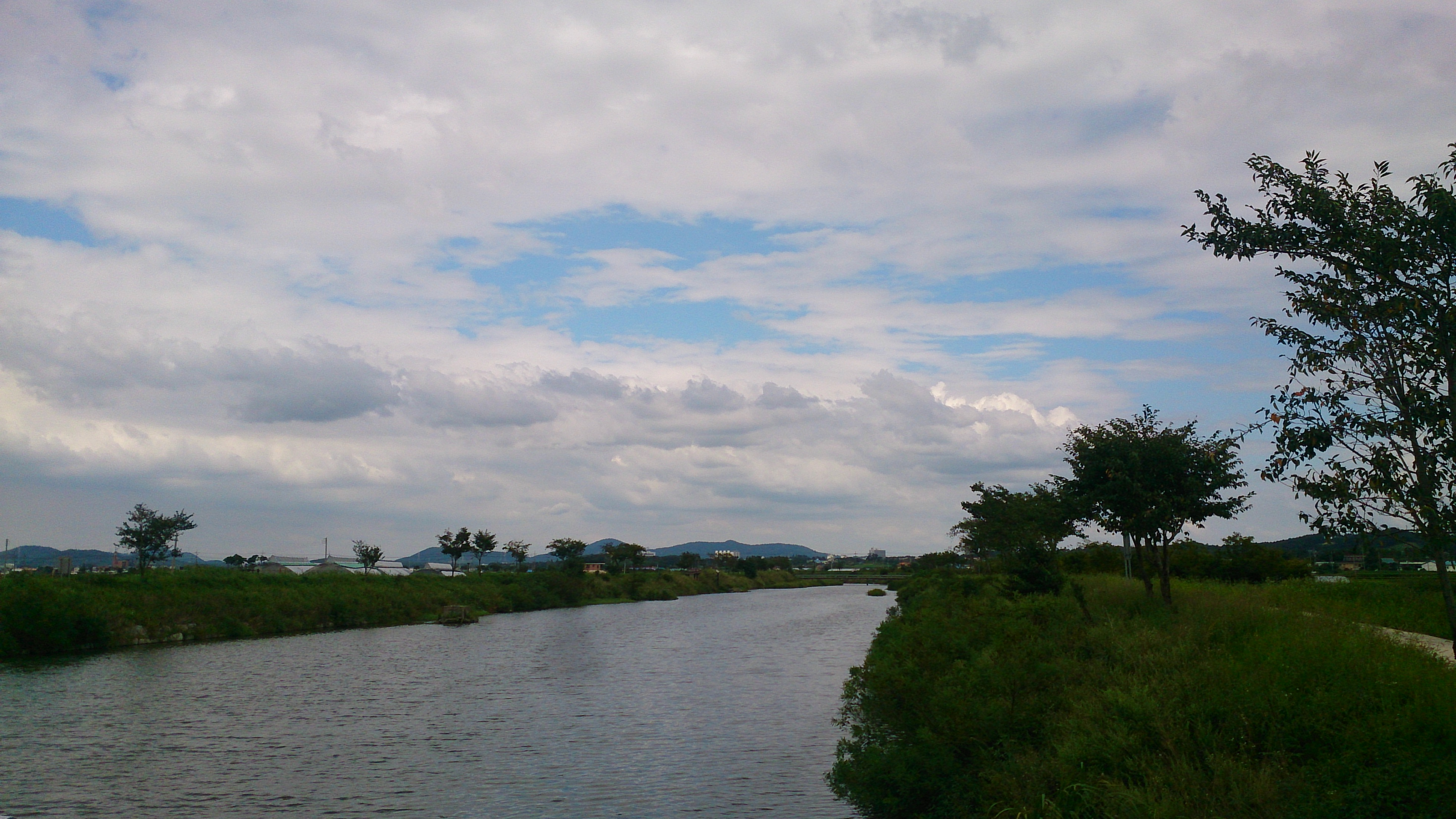 Countryside